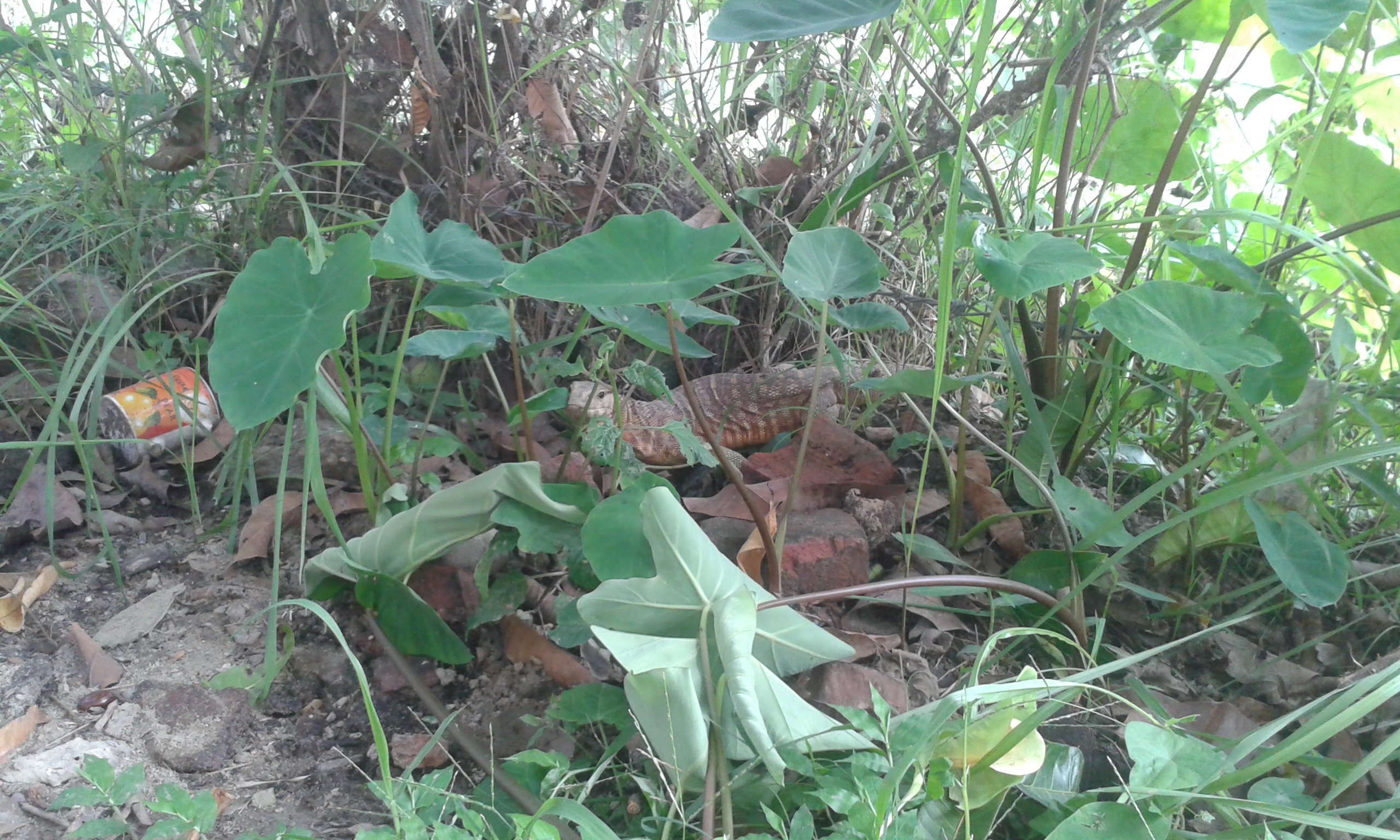 golden monitor lizard in the bush,seen tarai region of Nepal